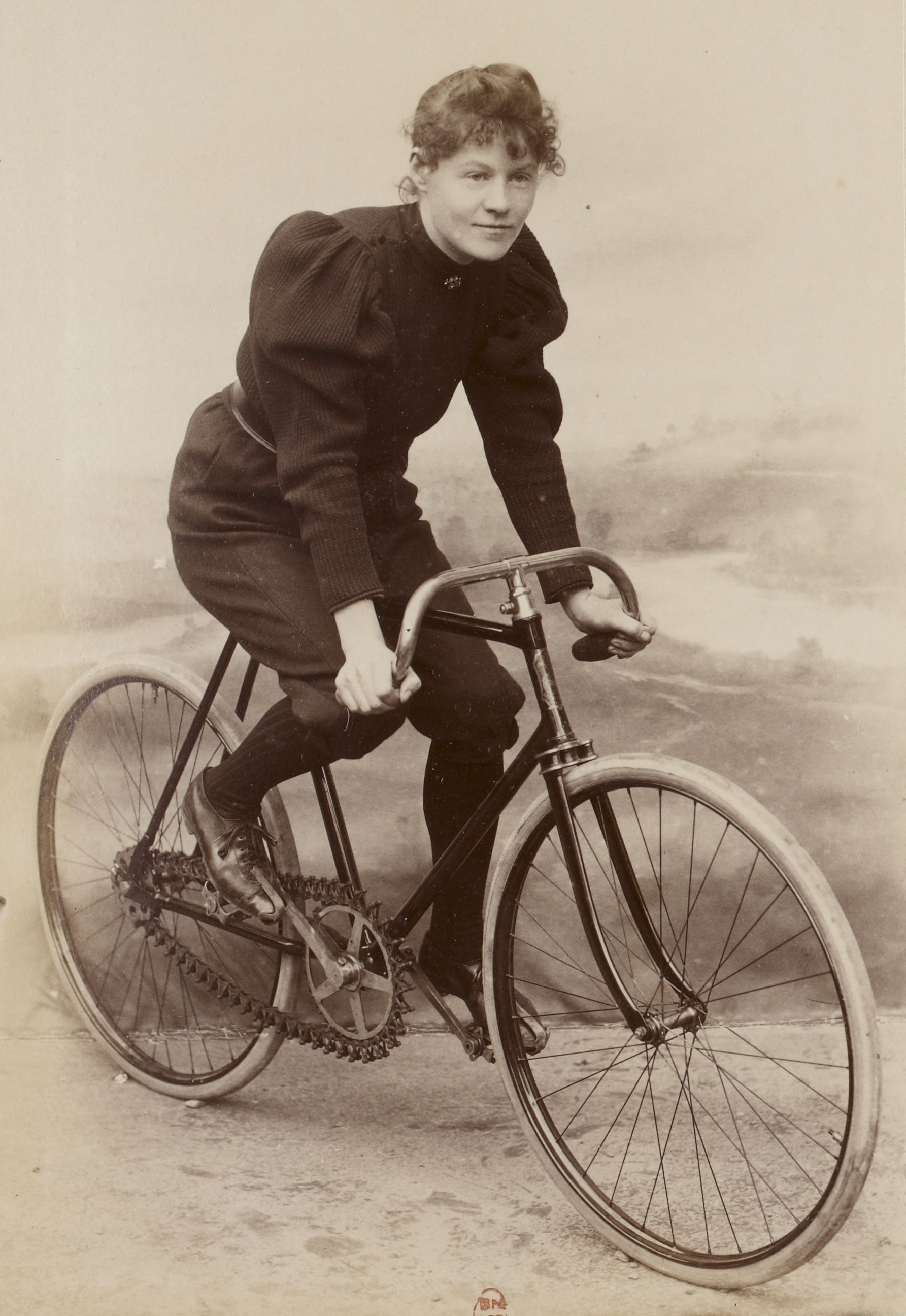 French female racing cyclist Lisette Marton in knickerbockers on Gladiator bicycle with Simpson lever chain in 1896.